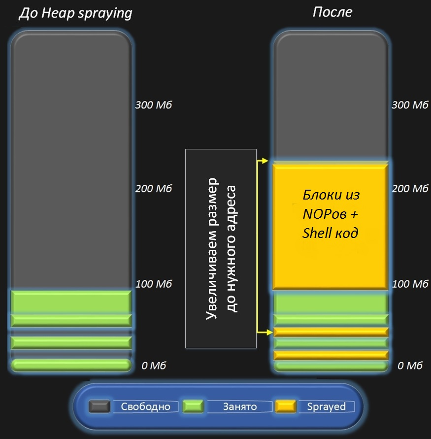 Memory during spraying